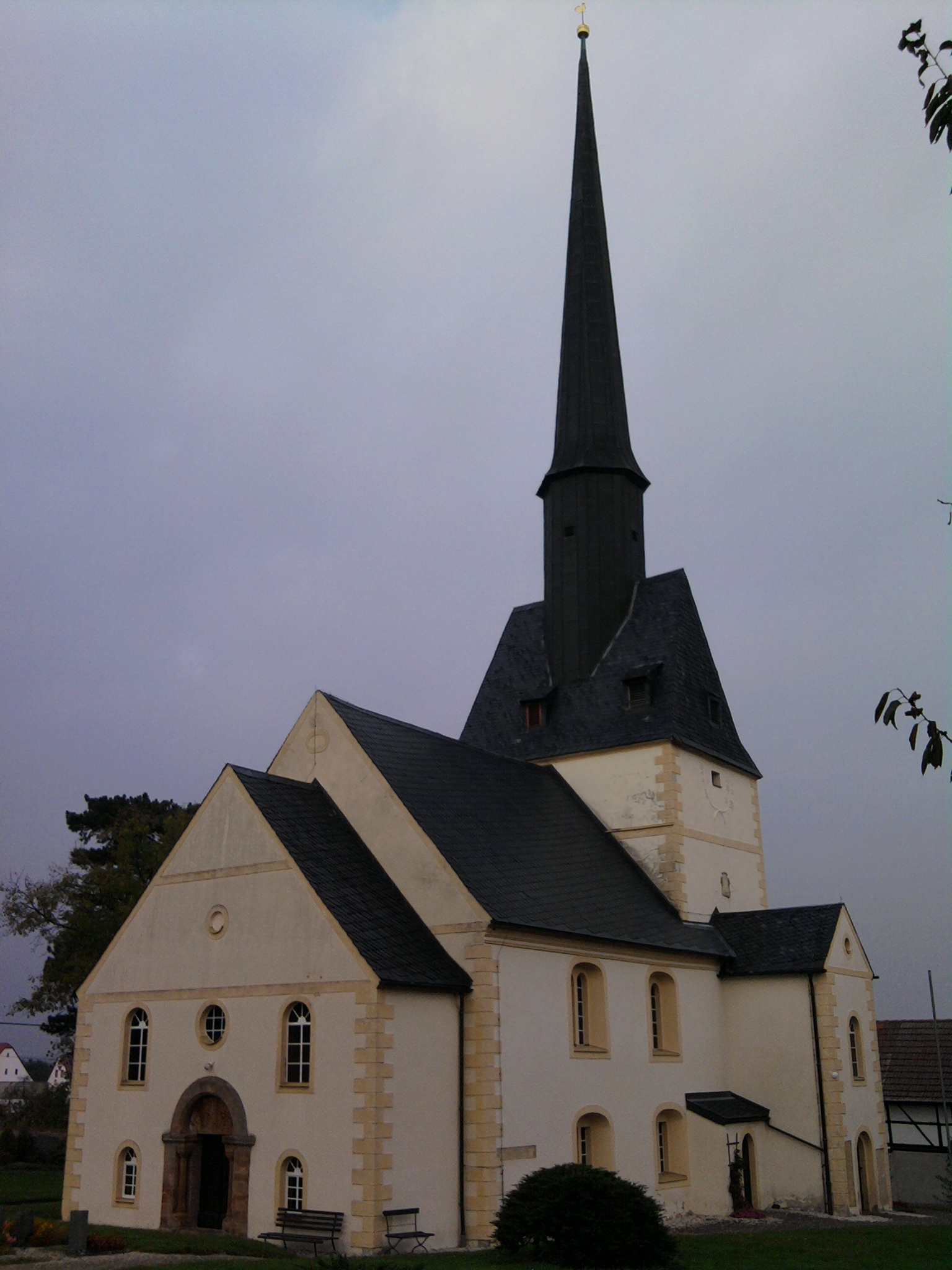 Church in Flemmingen, municipality Jückelberg in thuringian Landkreis Altenburger Land